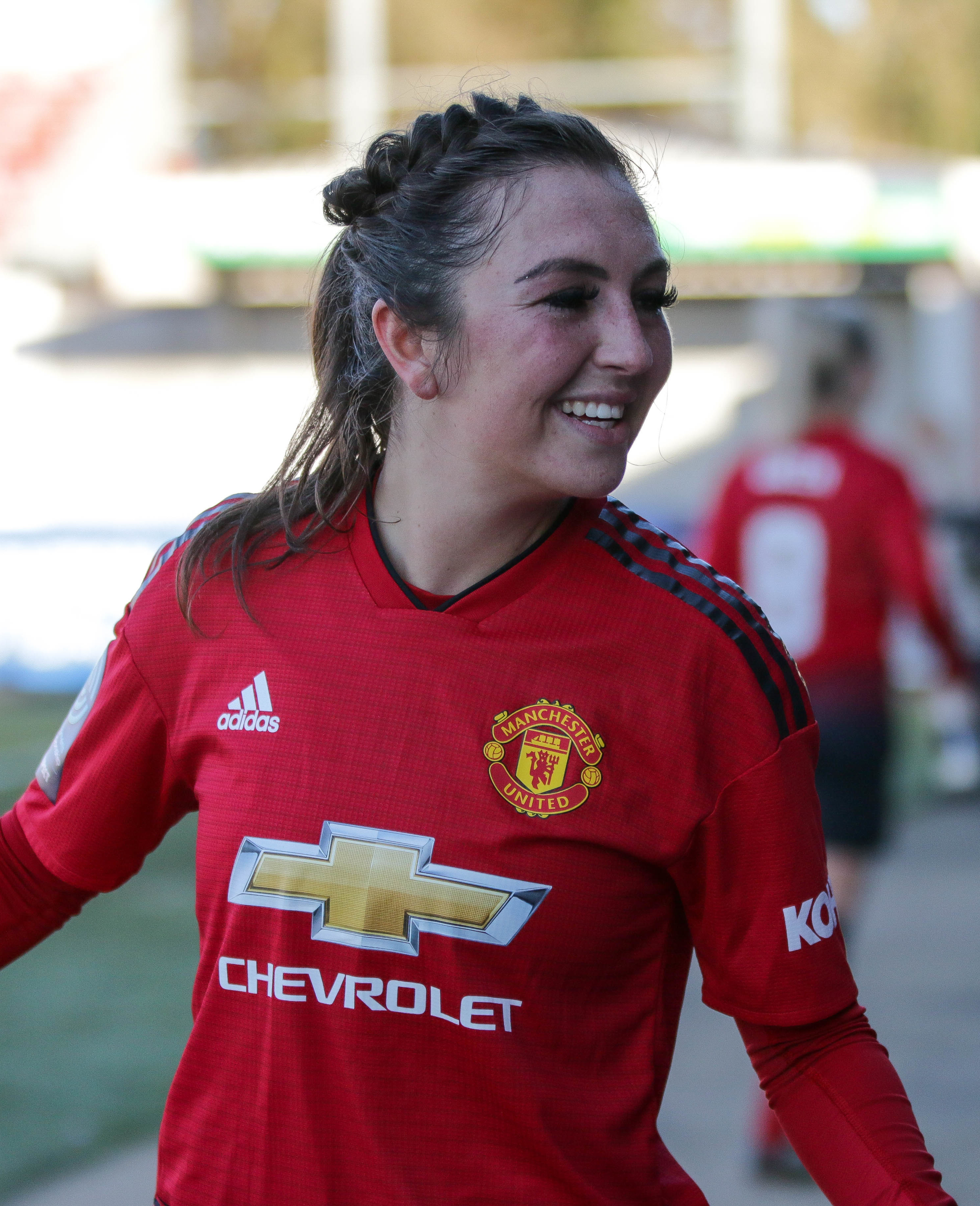 English footballer Katie Leigh Zelem with Manchester United Women F.C. in the 2018–19 season.